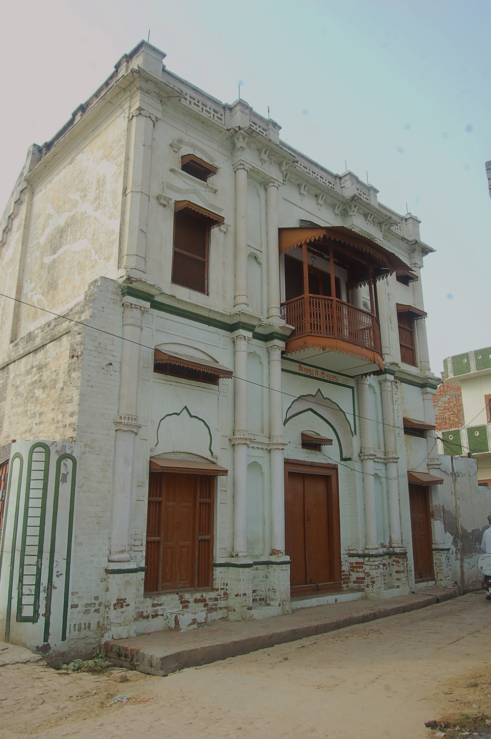 Hamidi, Barnala district